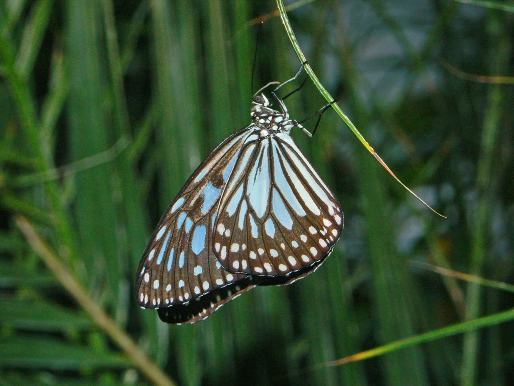 Ideopsis vulgaris macrina - Niagara Falls Butterfly Conservatory